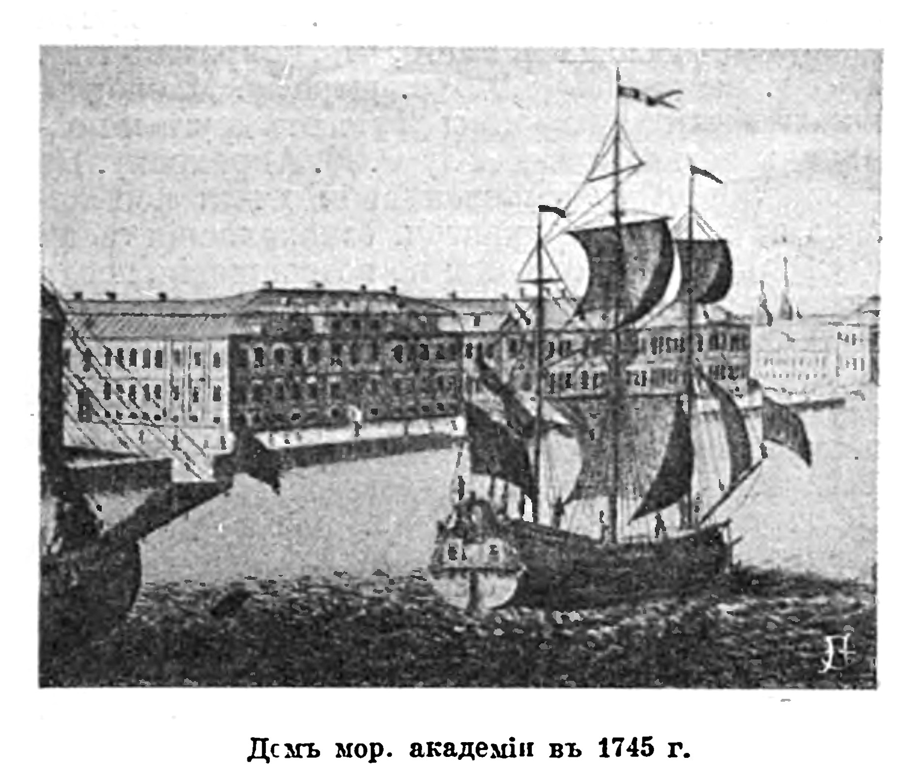 The Sea Cadet Corps (Russian: Морской кадетский корпус), occasionally translated as the Marine Cadet Corps or the Naval Cadet Corps, is an educational establishment for training Naval officers for the Russian Navy in Saint Petersburg.